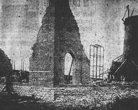 Ruins of an iron works in Buffalo, New York, destroyed by the remnants of the 1900 Galveston hurricane